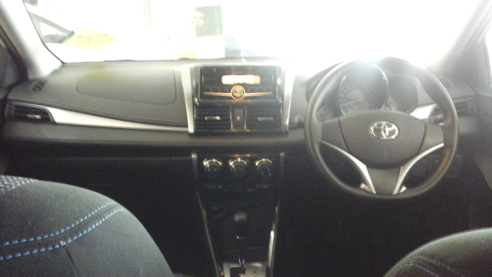 2018 Indonesian-built Toyota Vios (XP150) 1.5 E CVT interior. Photographed in NBT Toyota Bunut, Kampong Bunut, Brunei.